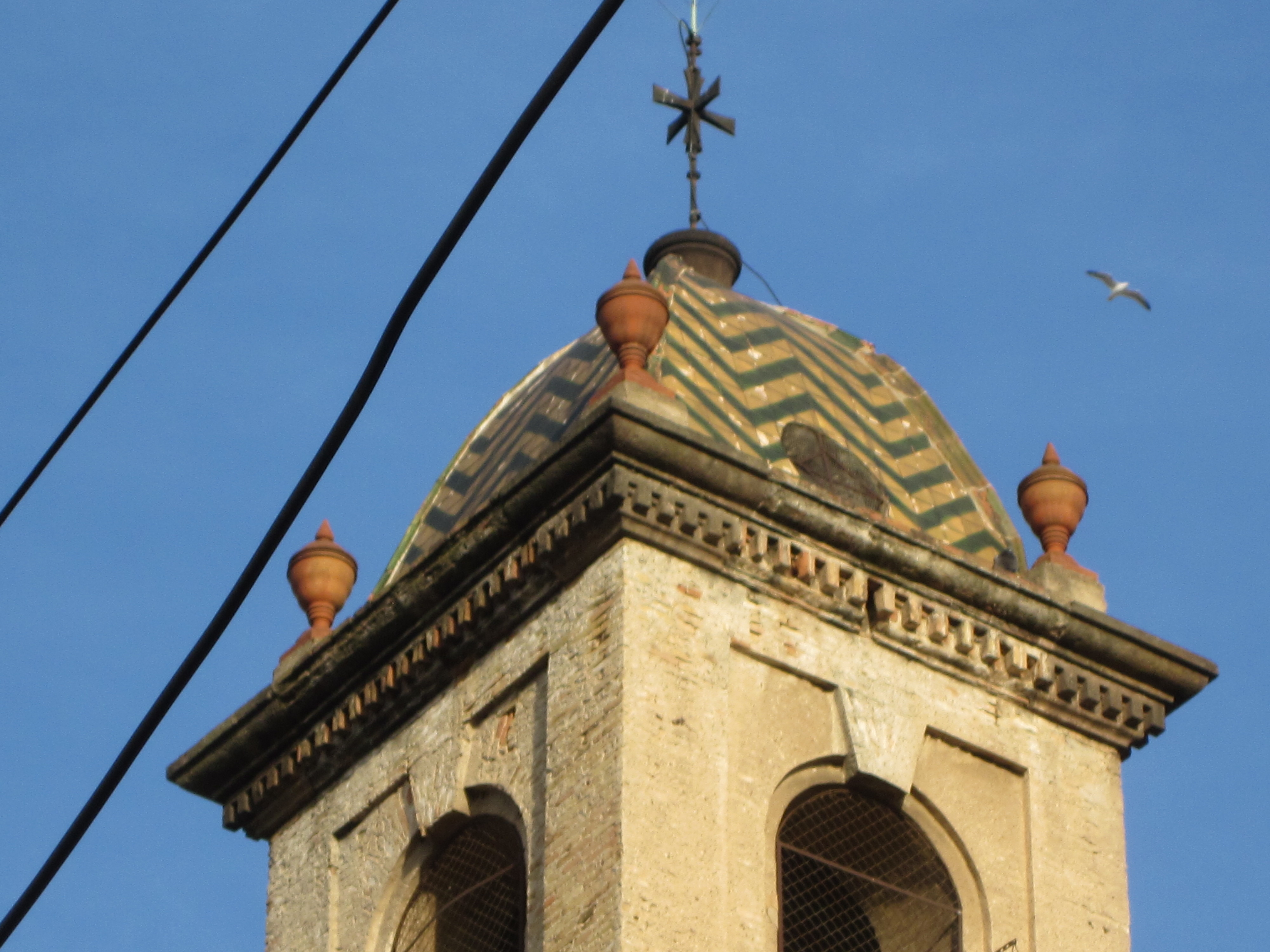 Roof of the church bell of Sant Martí de Provençals, Barcelona old town plan, now integrated into the city within the district of Sant Martí (Saint Martin).